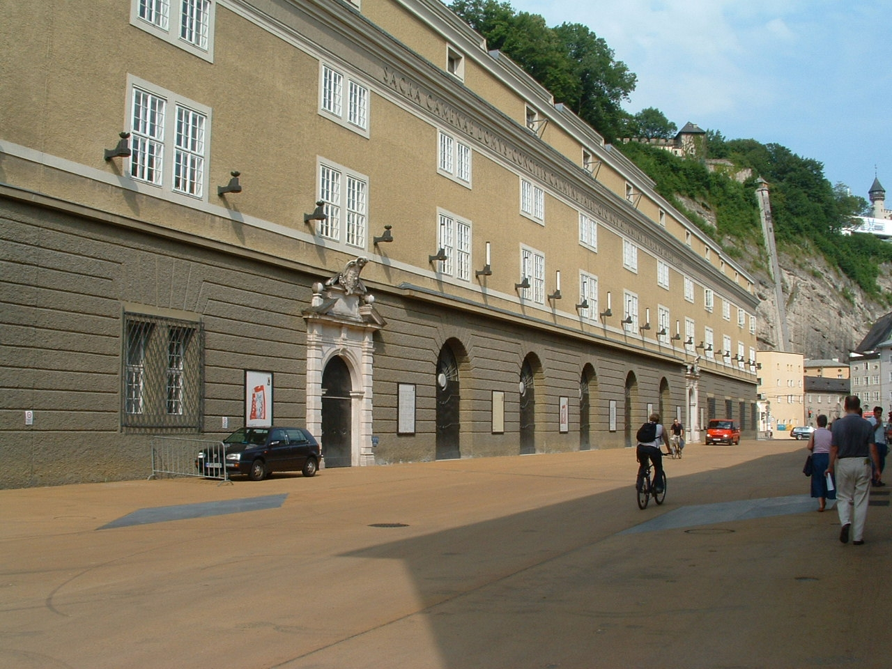 Austria, Salzburg, Großes Festspielhaus